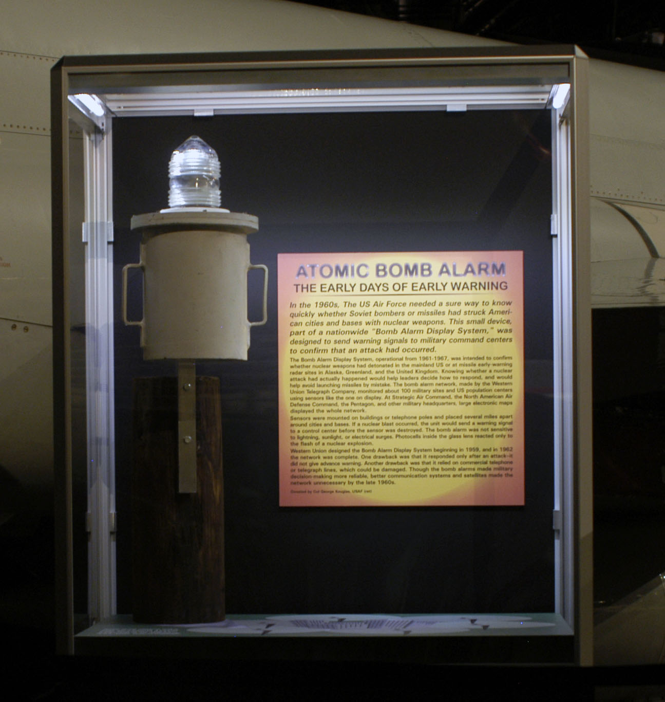 Sensor for Program 210 - Bomb Alarm System